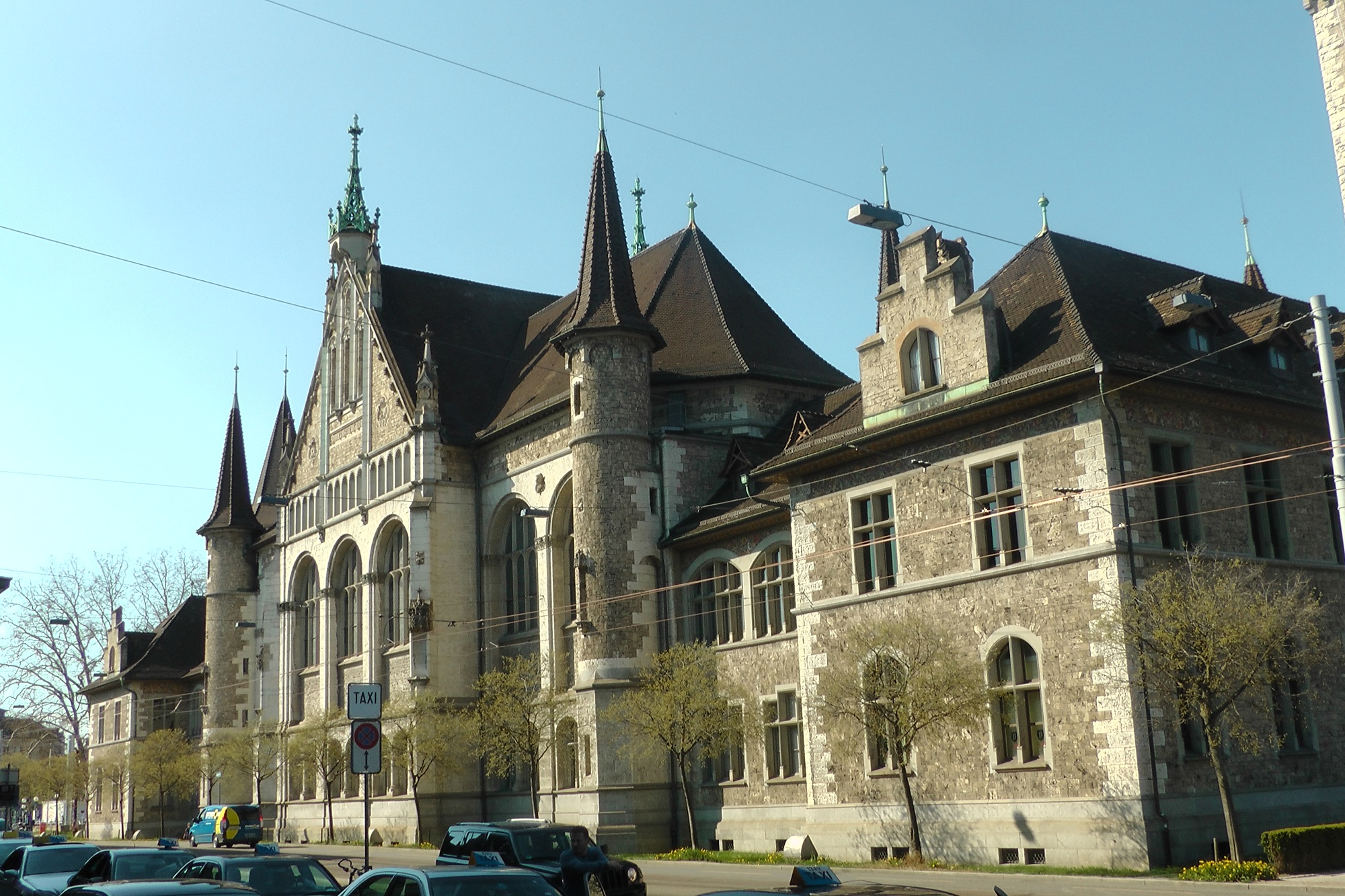 Swiss National Museum / Landesmuseum Zurich. Photo by Pejman Akbarzadeh / Persian Dutch Network, April 2013